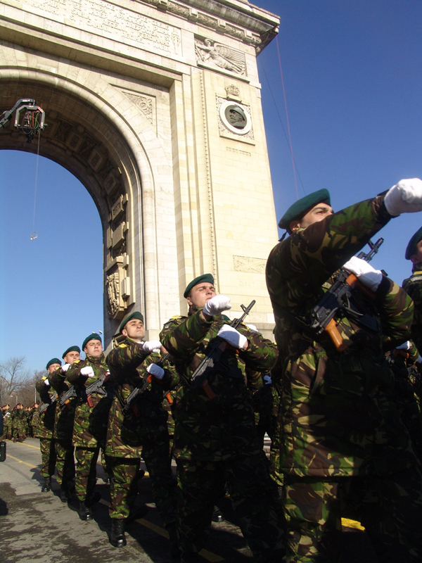 Romanian Mountain Troops (Vânători de Munte) from the 30th Mtn. Battalion during the Romanian National Day (1st of December 2007).